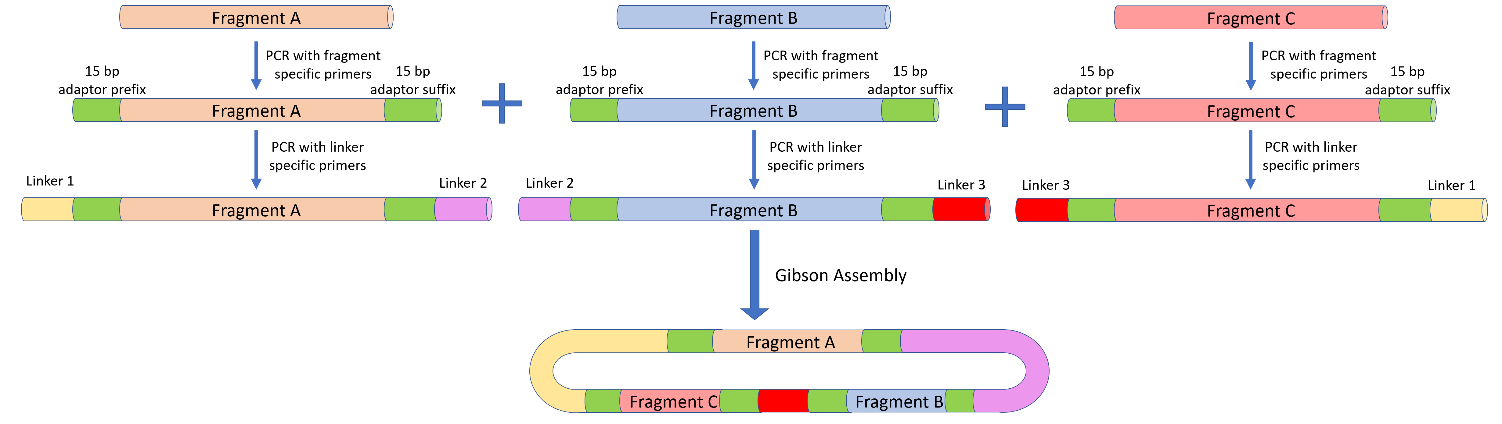 DNA parts undergo two PCR reactions for the attachment of adaptors and linkers to reach the MODAL standard. Once the parts are in the MODAL format, overlap assembly methods like the Gibson assembly can be used to assembled the parts together. Sequence of the parts is directed by the position of the linkers.